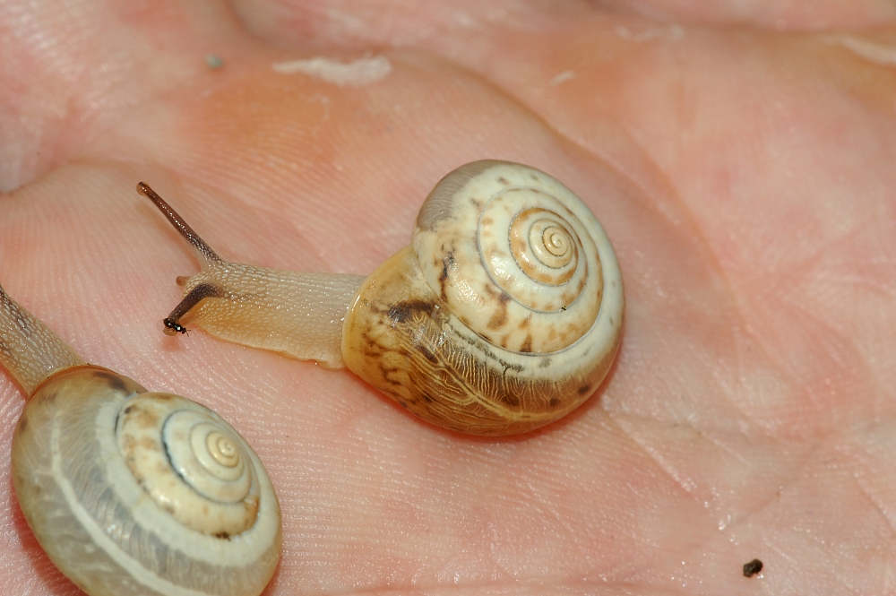 Helicidae, Monacha cartusiana, Röblingen near Halle/Saale, Germany